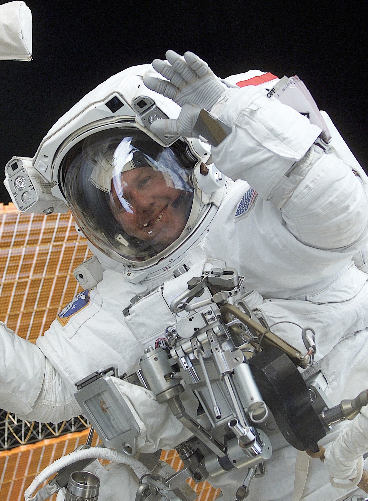 Astronaut Tom Jones waving to crew mates during EVA on STS-98.